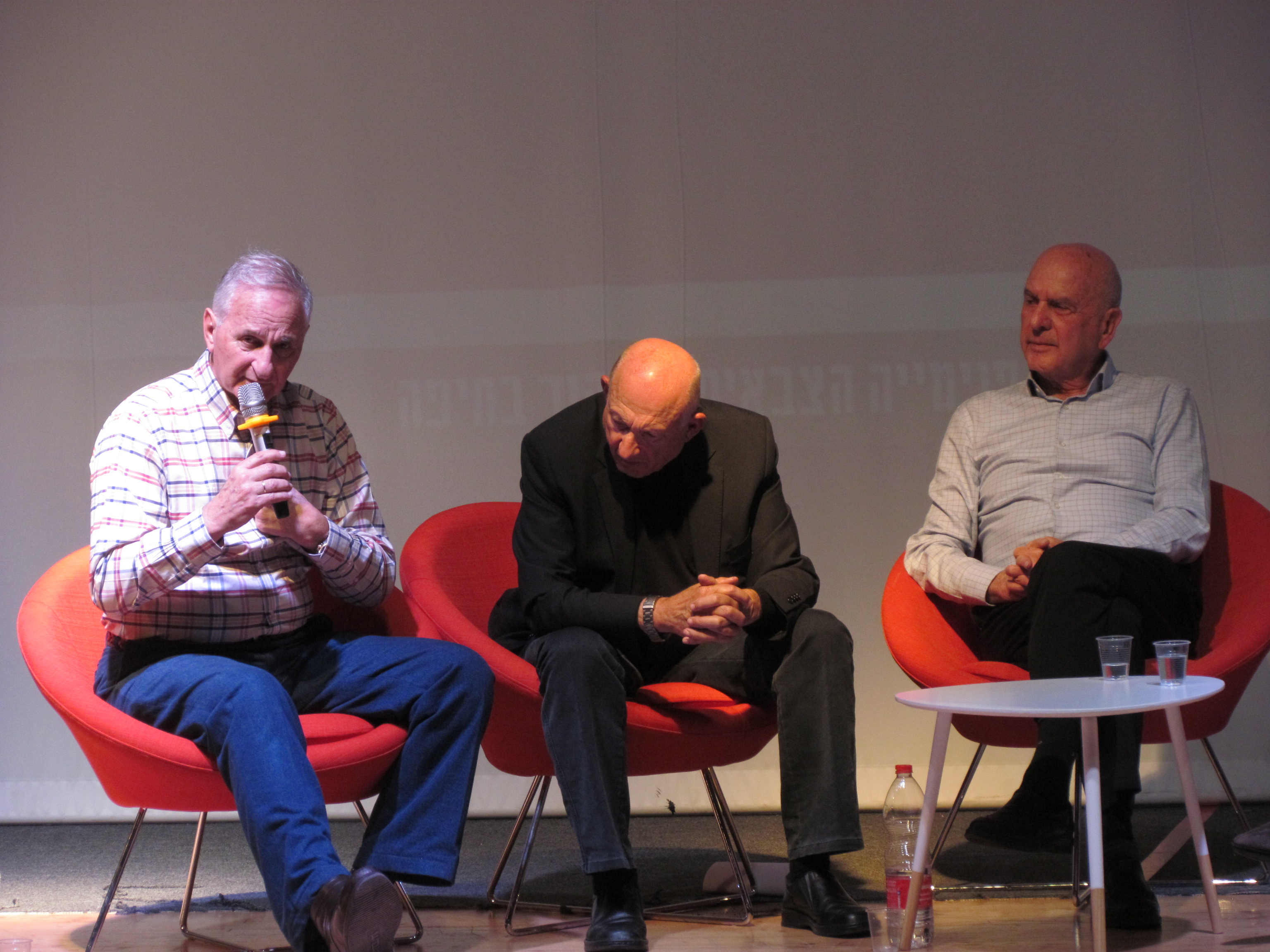 Giora Romm, Yom-tov Tamir and Matan Vilnai